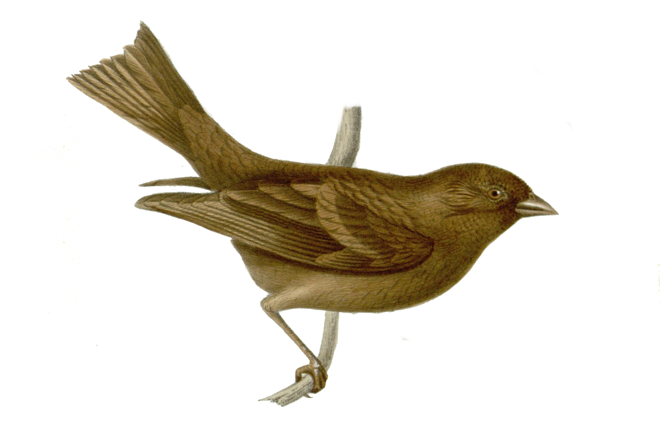 Carpodacus vinaceus female